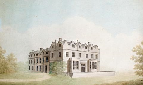 Maresfield House, Maresfield, Sussex, England, watercolour 31 cm * 50 cm, by Benjamin Dean Wyatt (1775-1850)